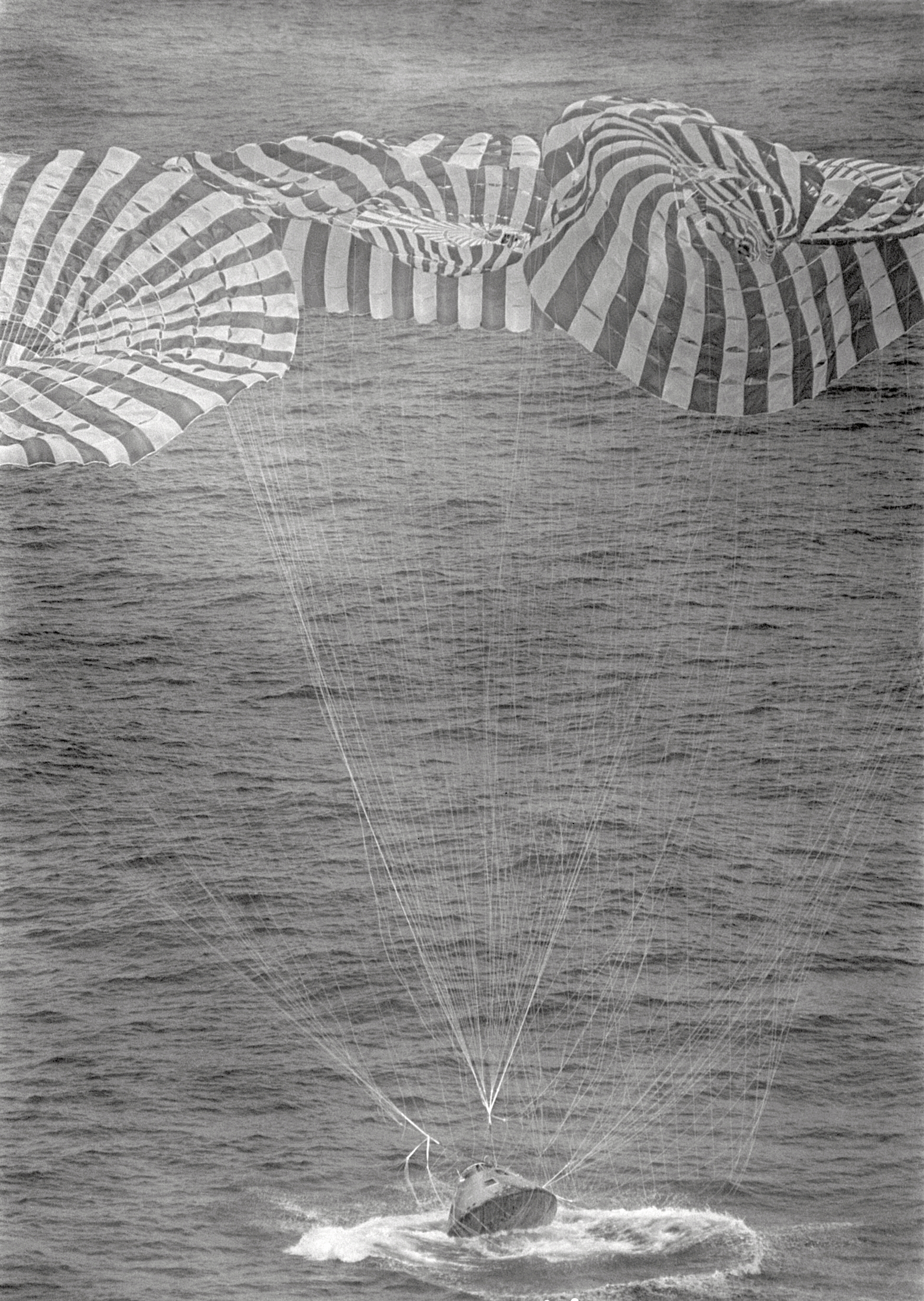 The Apollo 9 Command Module "Gumdrop", with astronauts James A. McDivitt, David R. Scott, and Russell L. Schweickart aboard, splashes down in the Atlantic recovery area to conclude a successful ten-day, Earth orbital mission. Splashdown occurred at 12:00:53 p.m. (EST), March 13, 1969, only 4.5 nautical miles from the prime recovery ship, U.S.S. Guadalcanal.